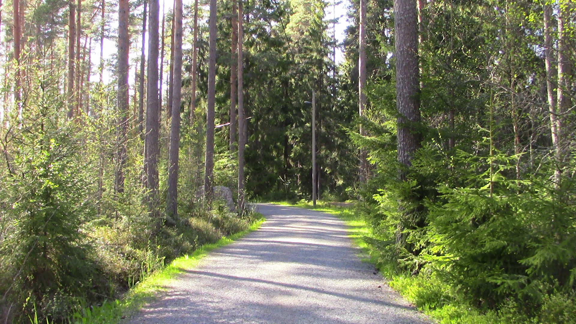 Jogging track or path at Porin metsä recreation ground in Pori, Finland.